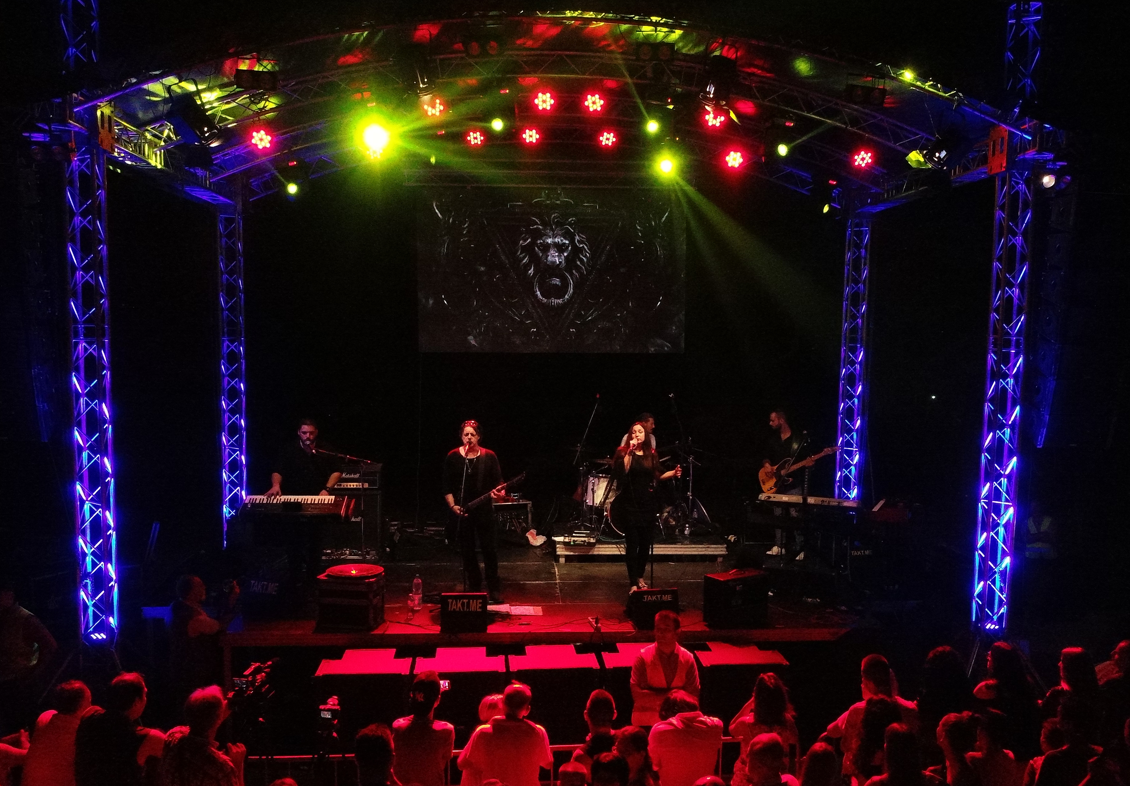 Grimm band live in Bar